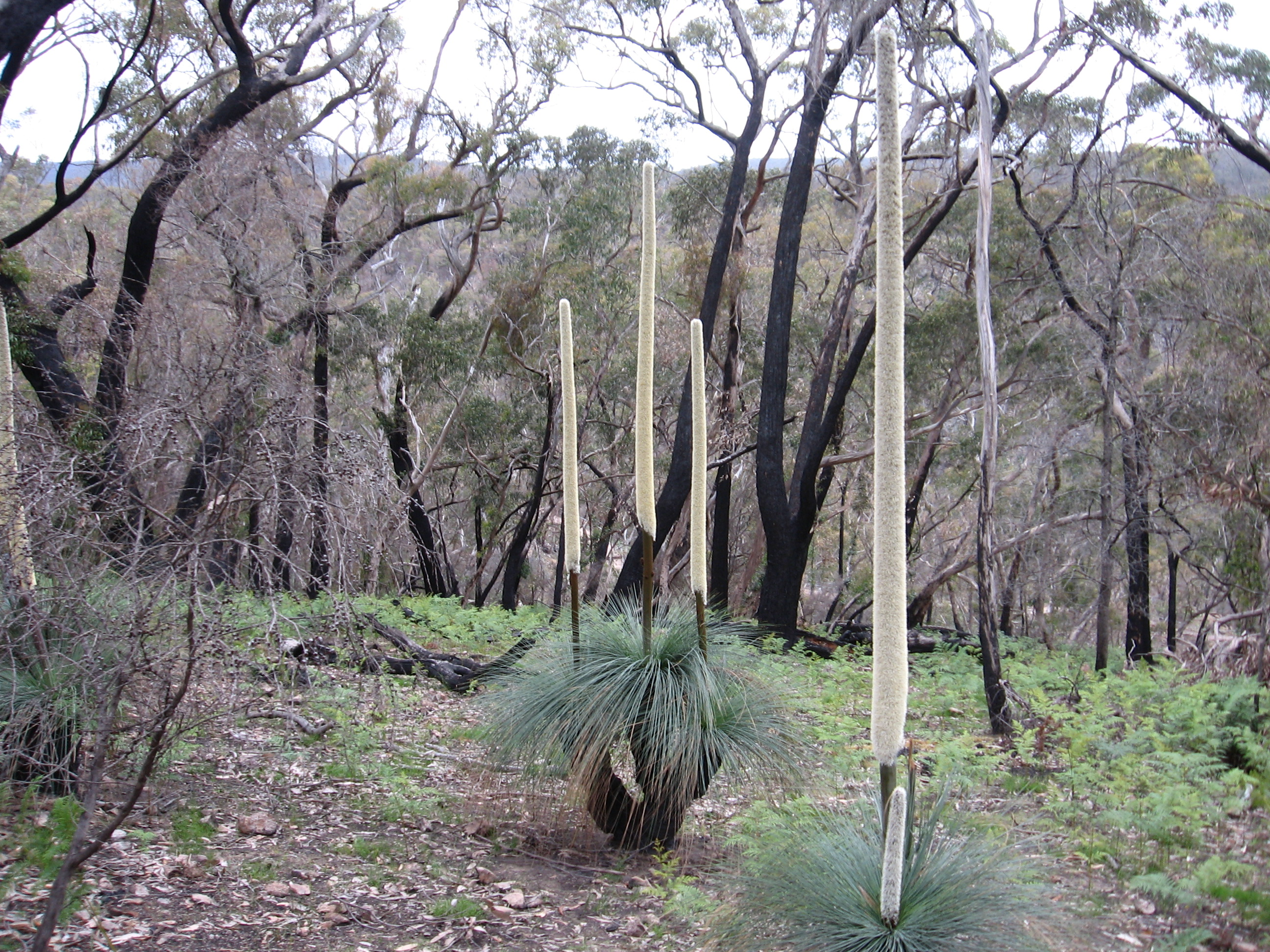 Grass tree, kangaroo-tail, xanthorrhoea australis, Grampians